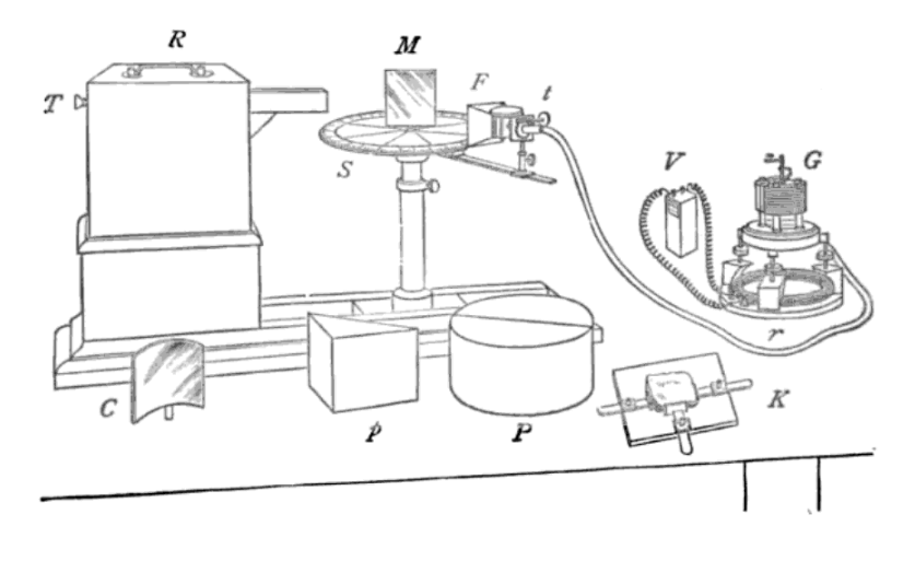 Diagram of microwave spectrometer apparatus built by Indian scientist Jagadish Chandra Bose in his pioneering experiments with microwaves between 1894 and 1897. The drawing is from his 1897 paper. It consists of a spark-gap transmitter (left) which generated 12 - 60 GHz microwaves, a receiver using a junction detector consisting of fine steel springs mounted in a horn antenna, connected to a bias battery and galvanometer. The transmitter waveguide and receiving horn were pointed at an optical stand on which reflectors, diffraction gratings and prisms could be mounted, which Bose used to measure reflection, refraction, index of refraction, diffraction, and polarization of the waves. The radial arm holding the receiving horn could be rotated to any angle about the stand, to measure the angle of the refracted beam. In these experiments, Bose was first to generate microwaves, and invented the microwave horn antenna, waveguide, and crystal radio wave detector. The labeled parts are described in the source as: (R) Spark-gap transmitter, with a Righi spark gap consisting of 3 tiny platinum beads, driven by an induction coil, contained inside an iron box to prevent the magnetic field of the coil from interfering with the receiver. The microwaves passed out through a cylindrical or rectangular waveguide, pointed at the stand (T) Key. When it was pressed, a single spark would jump across the spark gap, creating a short pulse of microwaves (S) Spectrometer circle stand, graduated in degrees (M) Plane mirror (F) Receiver horn with detector consisting of fine steel springs compressed in box (t) Thumbscrew to adjust pressure on detector (G) Galvanometer attached to detector (V) Liquid battery to bias detector (r) Potentiometer to adjust bias (C) Concave mirror (p) Prism (P) Half-cylinders for demonstrating internal reflection (K) Crystal holder for testing transmission of minerals